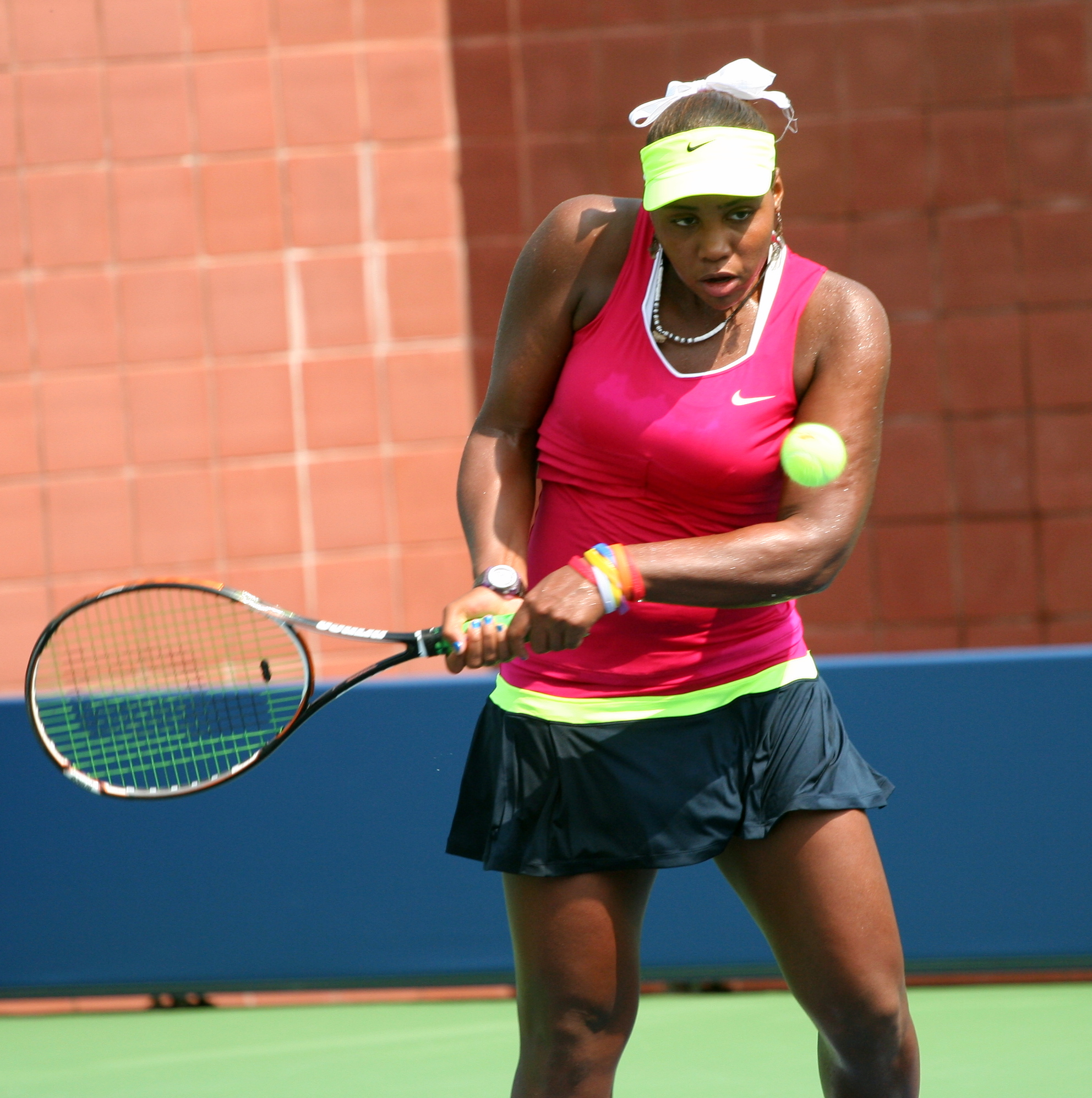 U.S. Open Juniors Friday, Sept. 7, 2012